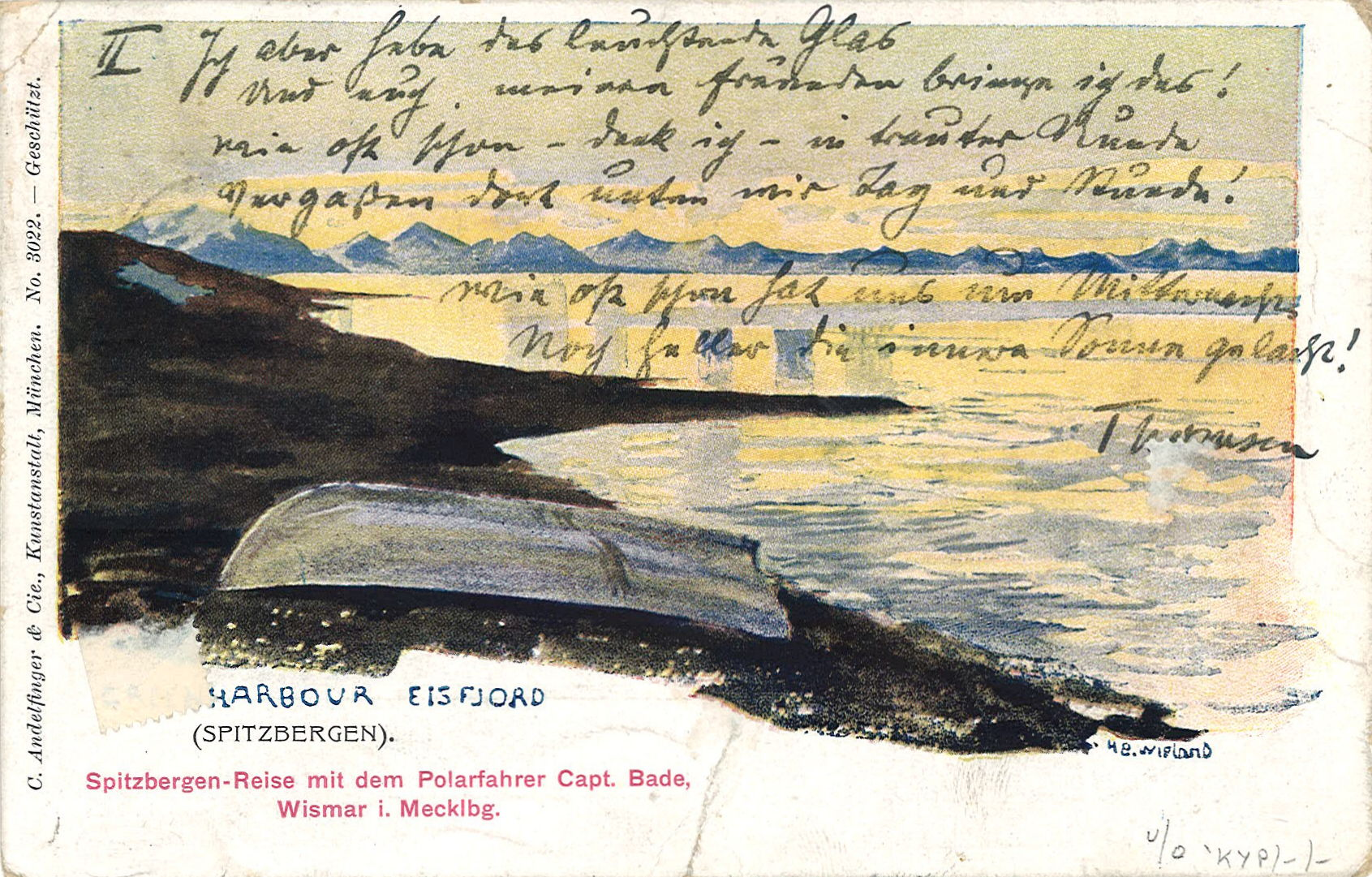 Picture postcard showing Green Harbour, Spitzbergen trip of Capt. Bade (103) by Hans Beat Wieland, stamped Hammerfest 1903